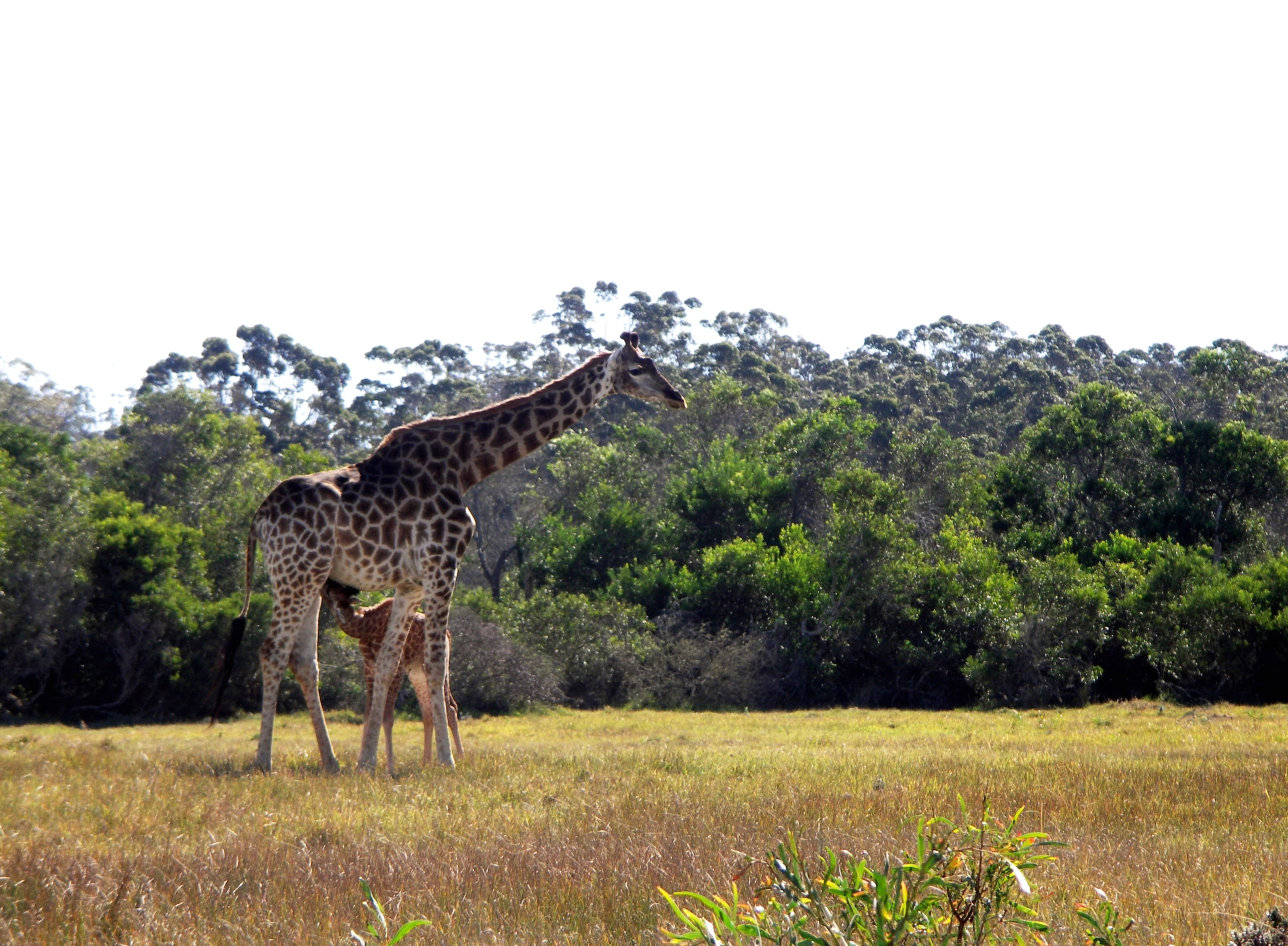 Giraffe calf drinking from mother at Kragga Kamma Game Park, Eastern Cape, South Africa